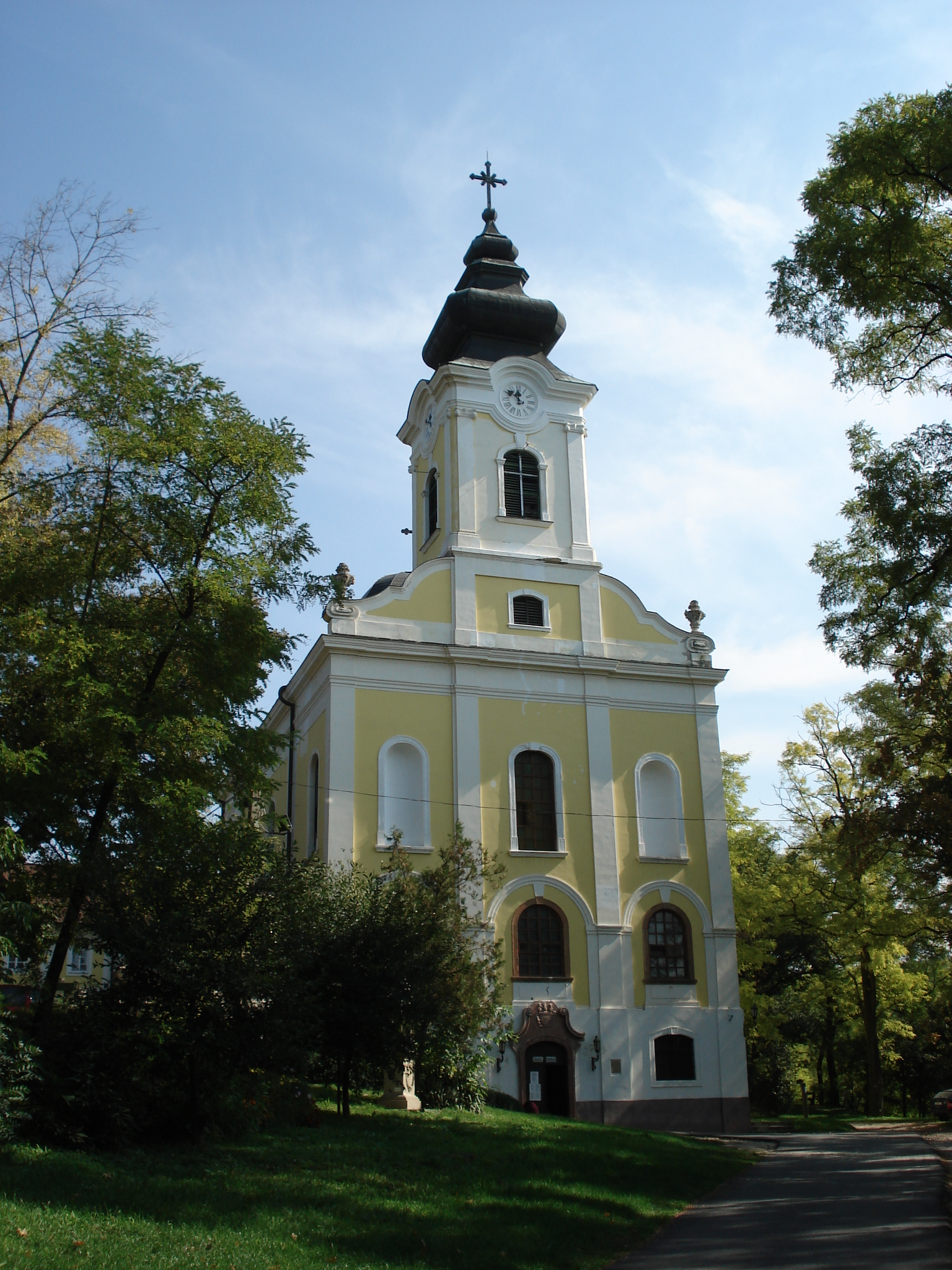 Capuchin church. Listed ID 7063. Baroque built in 1762-1769. - Máriabesnyő-Gödöllő, Pest County, Hungary